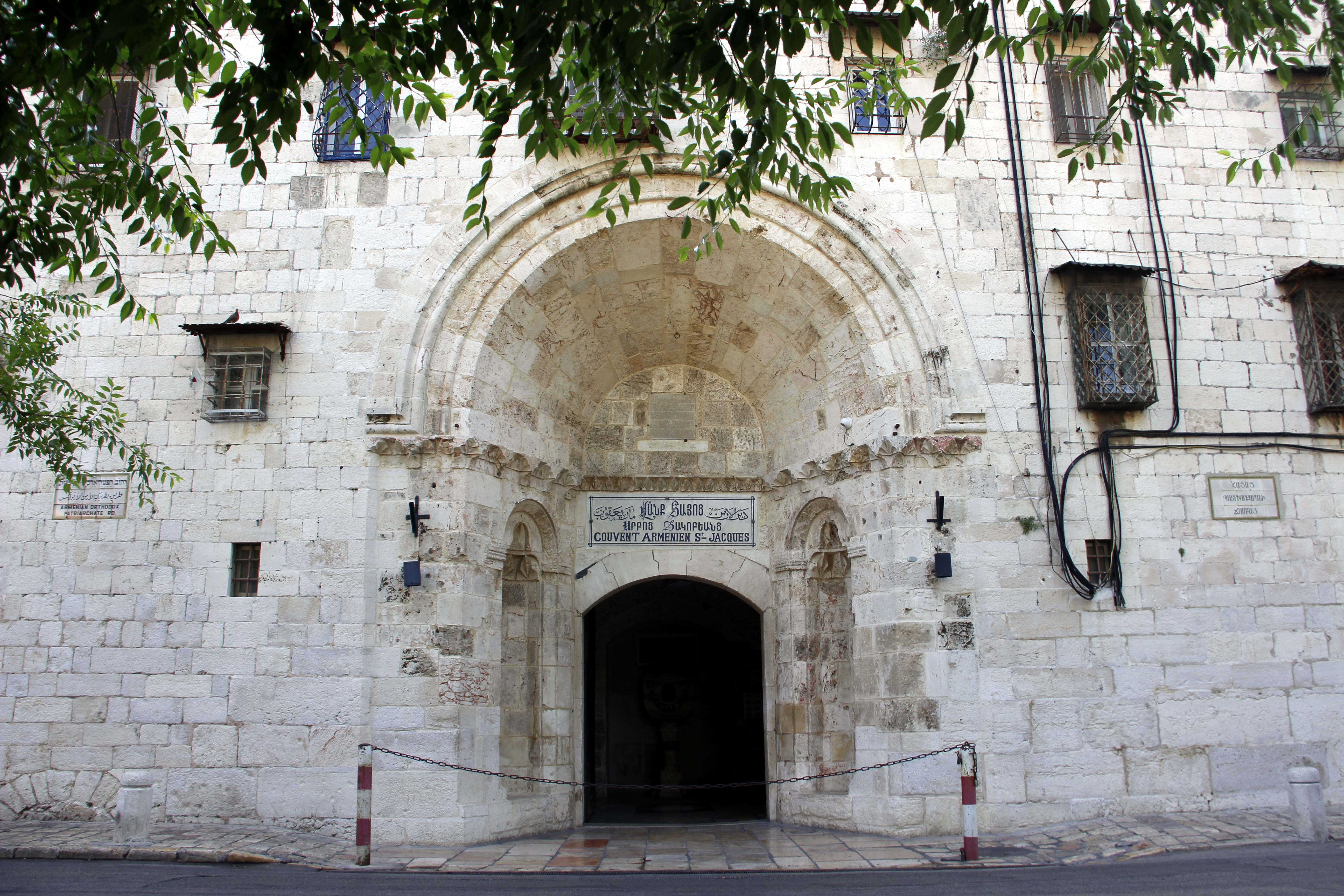 Monastery of St. James, Jerusalem